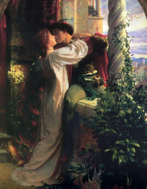 Romeo and Juliet